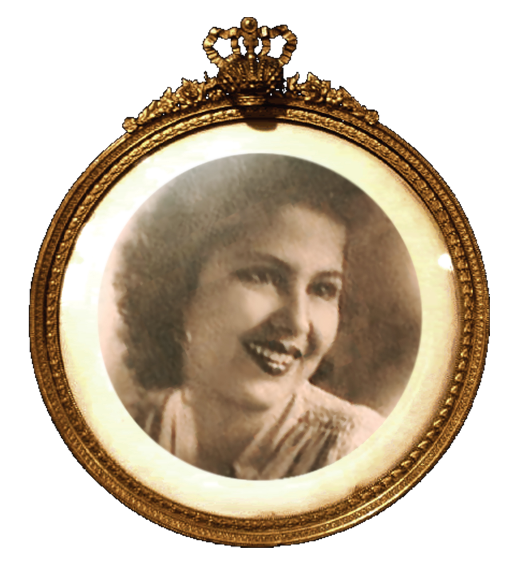 Mrs Rosalía Olvera, Head of Casa de Luzarraga